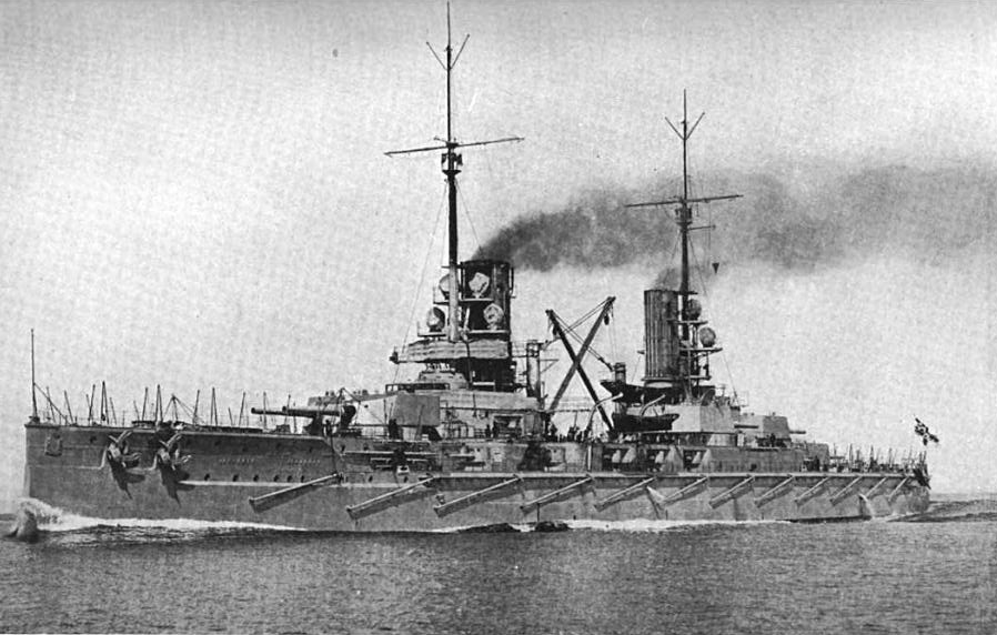 Battleship SMS Prinzregent Luitpold of Imperial German Navy by WWI era